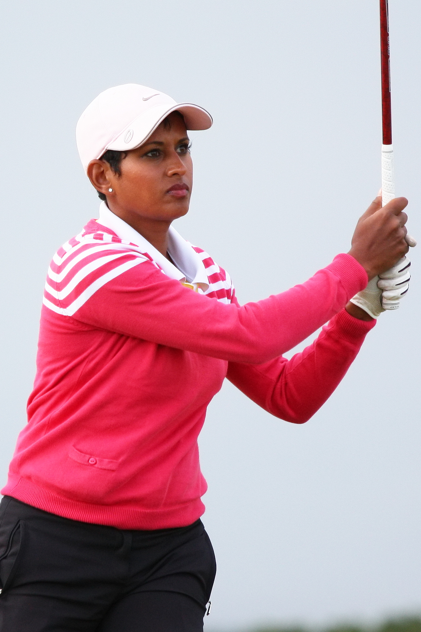 ST ANDREWS, SCOTLAND – JULY 30: television host and presenter Naga Munchetty of England watches her tee shot on 15th hole during pro-am round of 2013 Ricoh Women's British Open held at St Andrews Old Course on July 30, 2013 in St Andrews, Scotland. (Photo by Wojciech Migda)